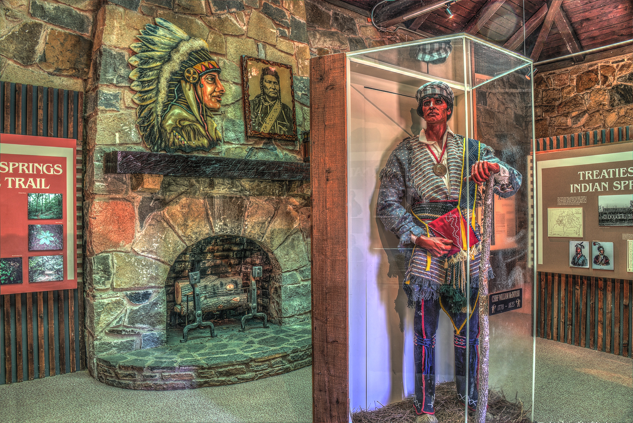 exhibit of William McIntosh at Indian Springs State Park Museum